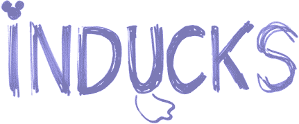 INDUCKS logo